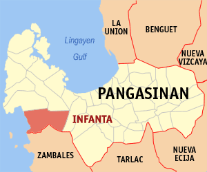 Map of Pangasinan showing the location of Infanta